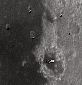 Lyell lunar crater as seen from Earth with satellite craters labeled